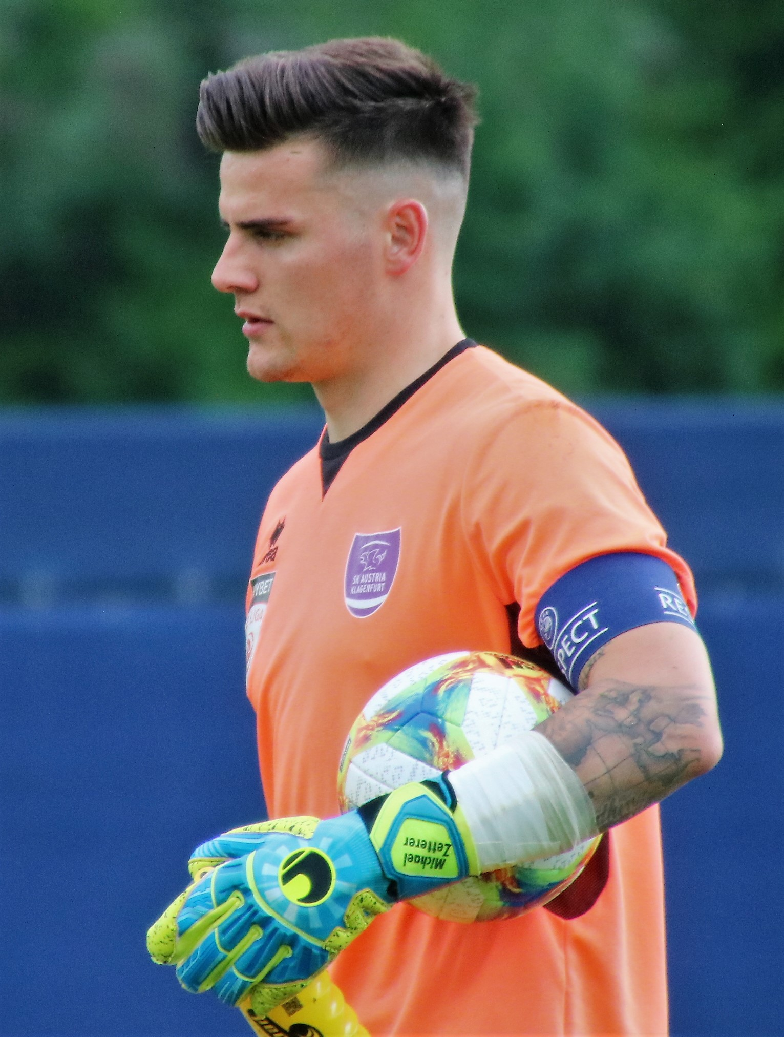 league match Austria 2nd league